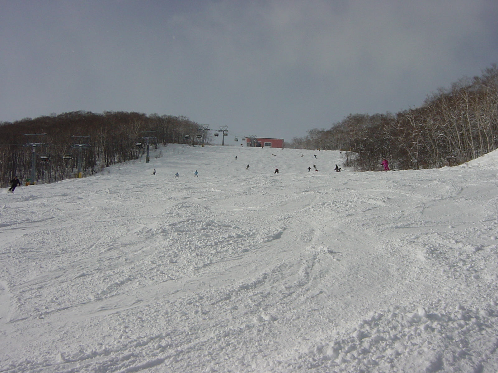 Second Appi Slope First Run, 1 Jan 2005